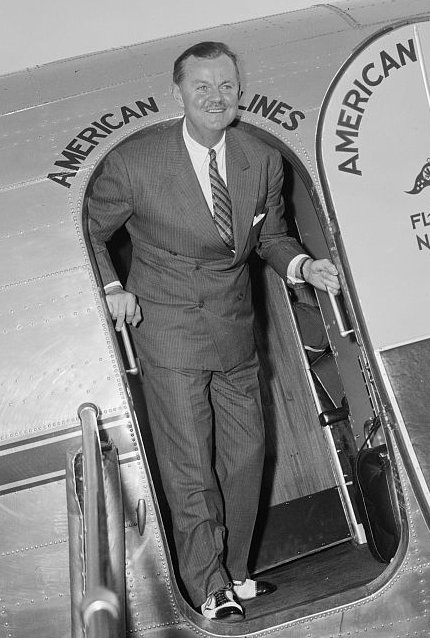 Title: Song-bird pauses at Washington airport. Washington, D.C., July 11. Enroute from California, Lawrence Tibbett, song-bird star of 'The Circle,' well known radio program, stepped out of the flag ship of the American Airlines to take a breath of Washington Air before going on to New York. From there he will continue to Wilton, Conn., for a well earned vacation * Creator(s): Harris & Ewing, photographer * Date Created/Published: [19]39 July 11. * Medium: 1 negative : glass ; 4 x 5 in. or smaller * Part of: Harris & Ewing Collection (Library of Congress) * Reproduction Number: LC-DIG-hec-26965 (digital file from original negative) * Rights Advisory: No known restrictions on publication. * Call Number: LC-H22-D- 6946 [P&P] * Repository: Library of Congress Prints and Photographs Division Washington, D.C. 20540 USA * Notes: o Title from unverified caption data received with the Harris & Ewing Collection. o Gift; Harris & Ewing, Inc. 1955. o General information about the Harris & Ewing Collection is available at o Temp. note: Batch five. * Subjects: o United States--District Of Columbia--Washington (D.C.). * Format: o Glass negatives. * Collections: o Harris & Ewing Collection * Bookmark This Record: cropped from original as above to show the subject only